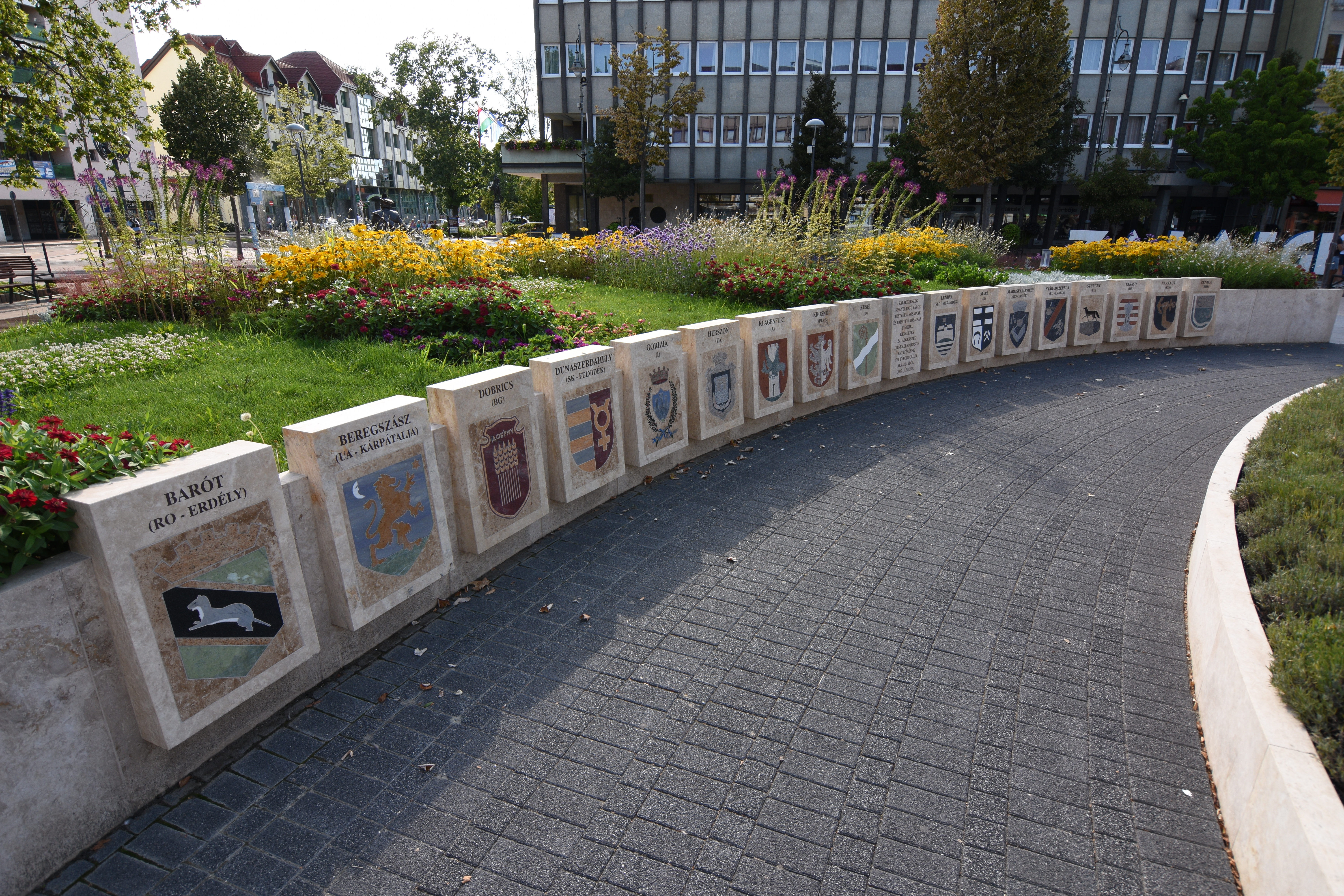 Zalaegerszeg, CoAs of twin towns